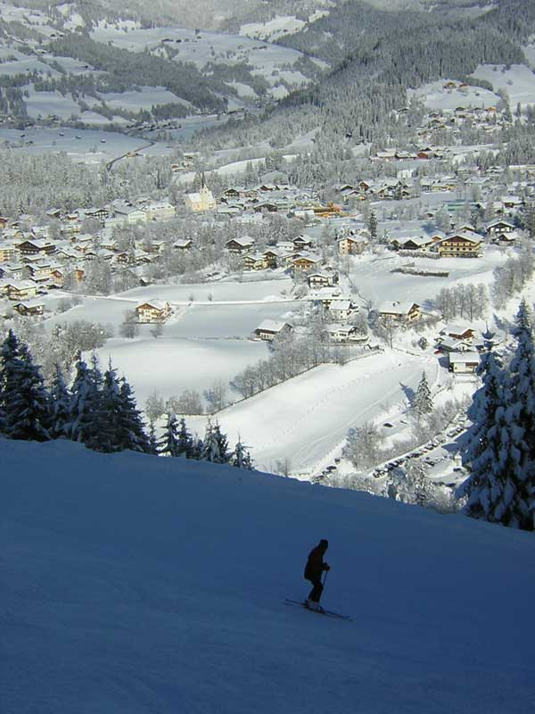 Wagrain, Salzburg.